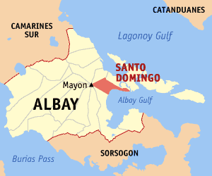 Locator map of Santo Domingo in Albay, Philippines.